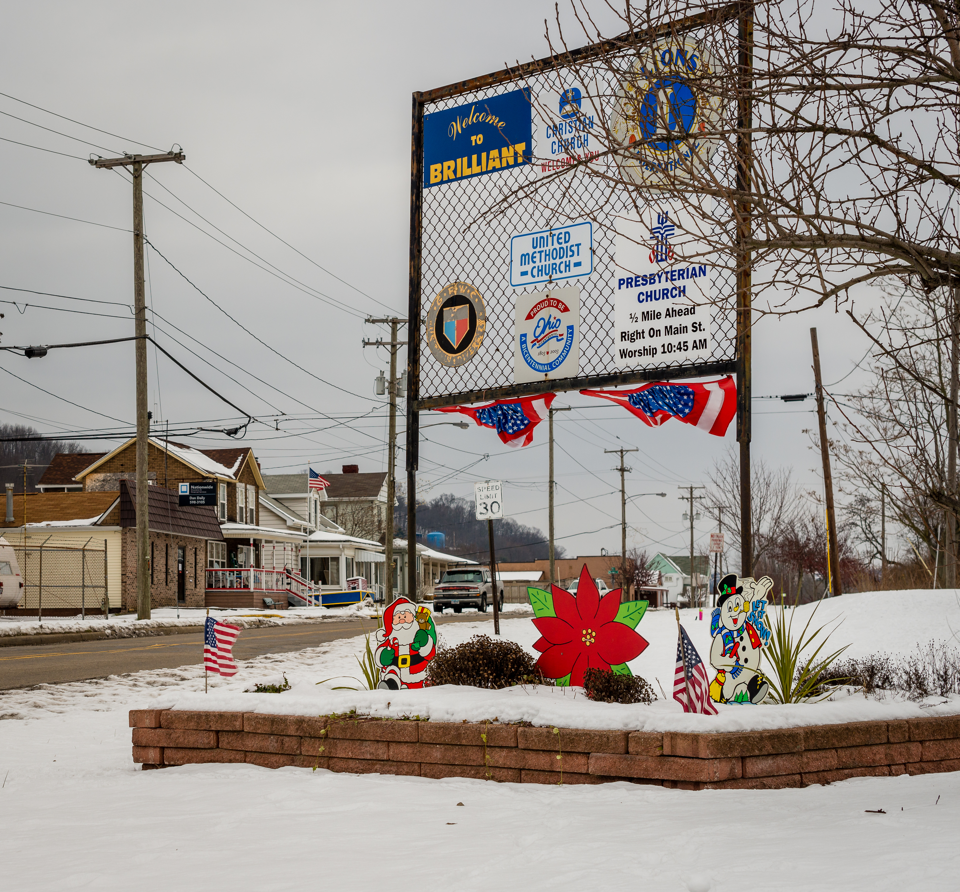 Brilliant is an unincorporated community in eastern Wells Township, Jefferson County, Ohio, United States. This welcome sign is on Third Street as you enter Brilliant from the south.